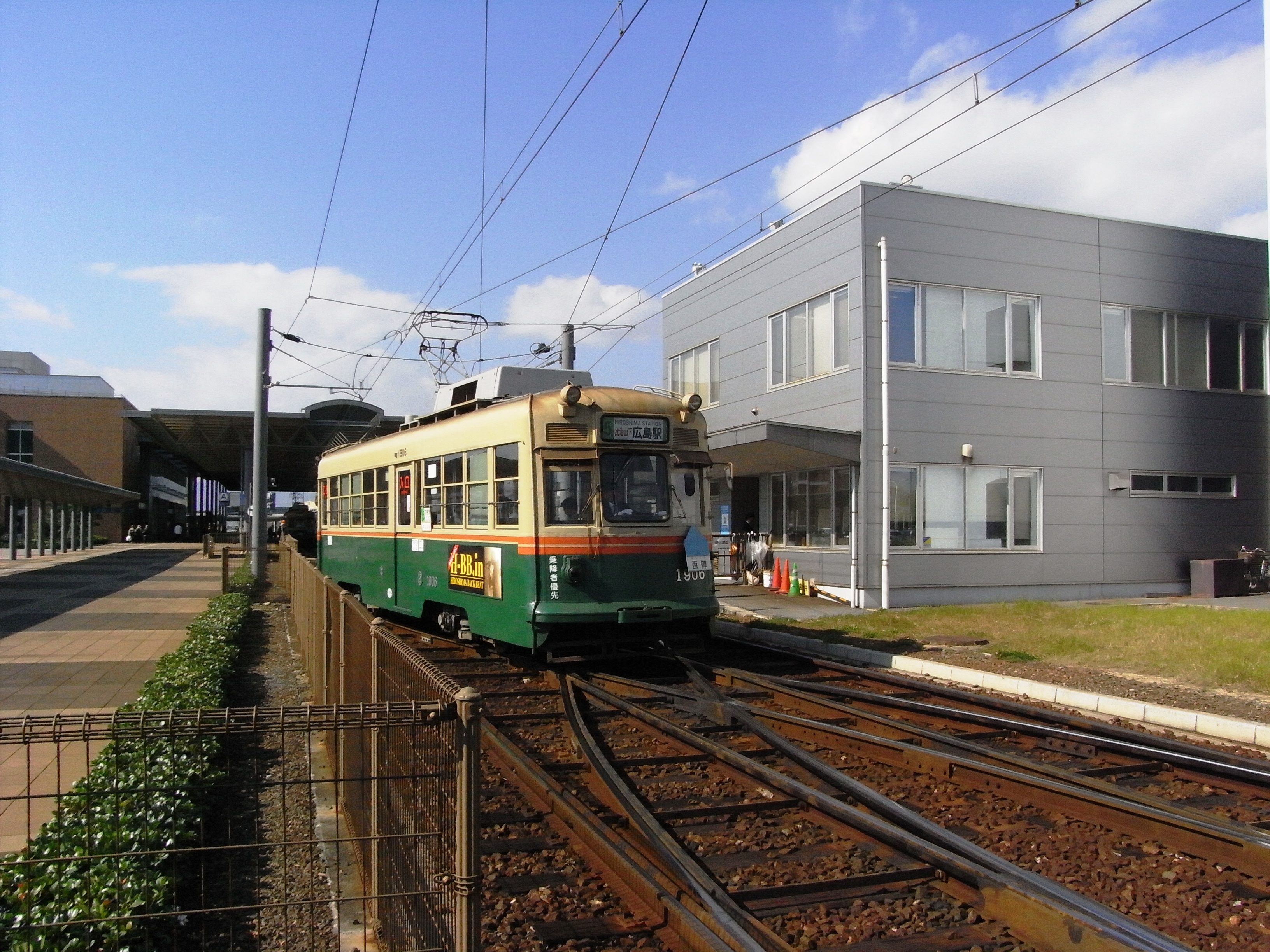 Hiroshima Electric Railway Hiroshima Port Station